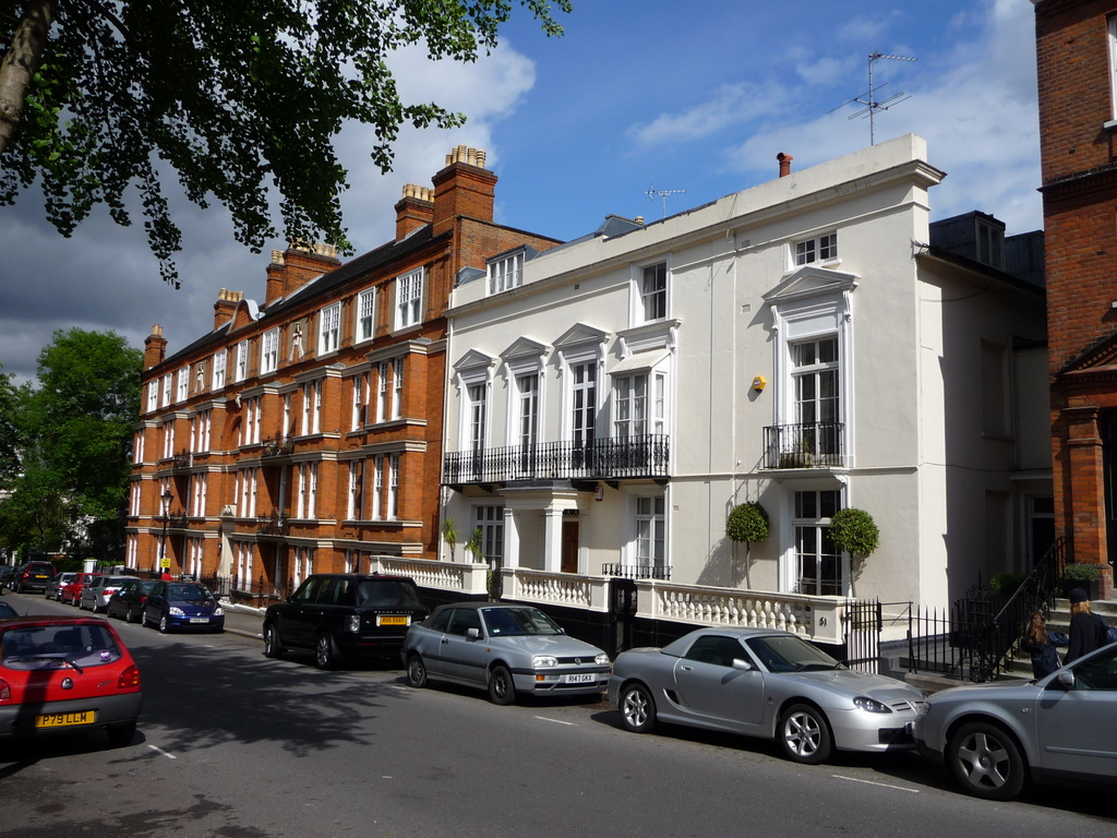 Downshire Hill, Hampstead, London NW3, near to Hampstead, Camden, Great Britain. Houses in Downshire Hill near Rosslyn Hill.